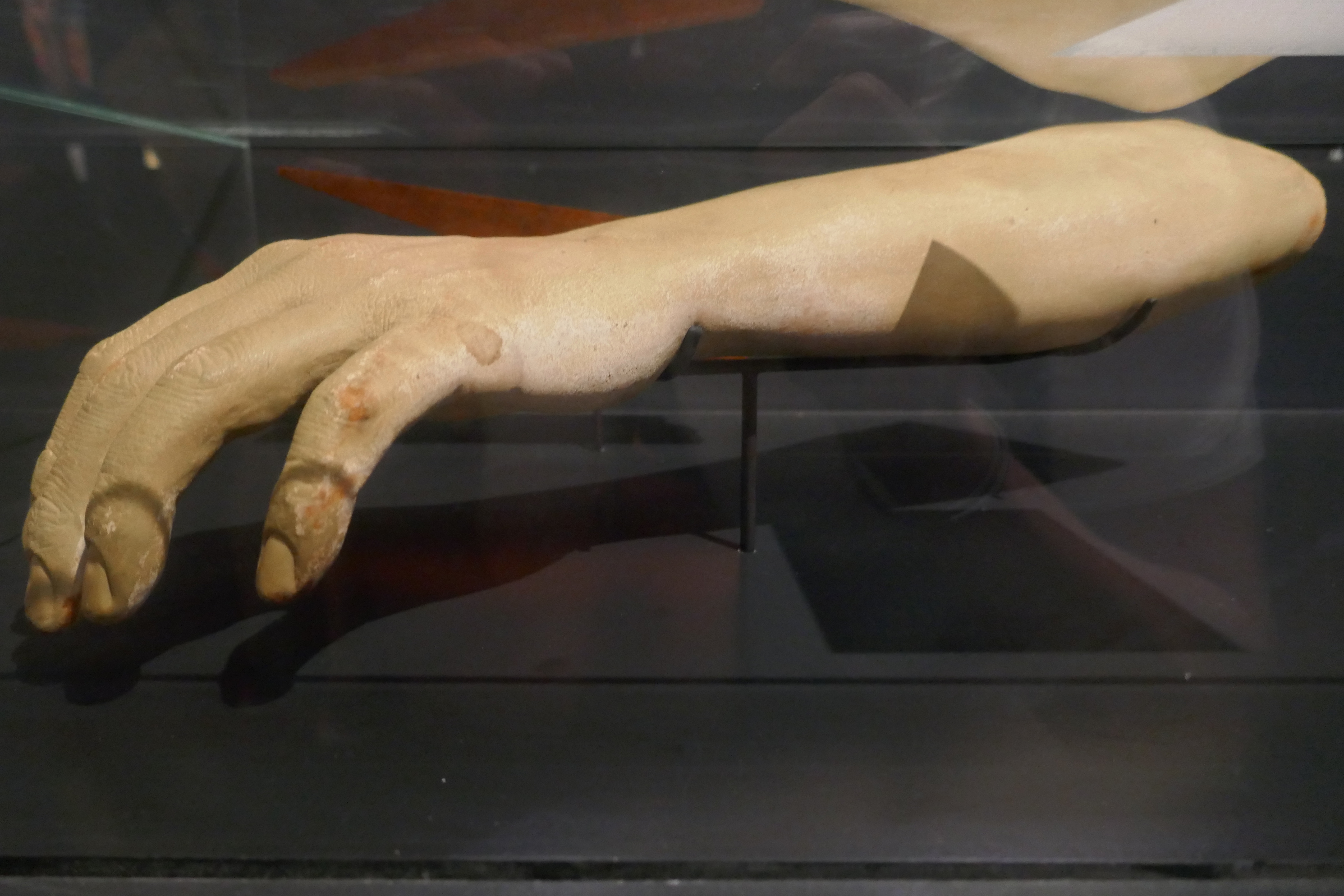 Silicone arm used for the movie Le Gendarme et les Extra-terrestres. Scene where Gerber sees a man split up. Museum of Gendarmerie and Cinema, Saint-Tropez, August 2015.